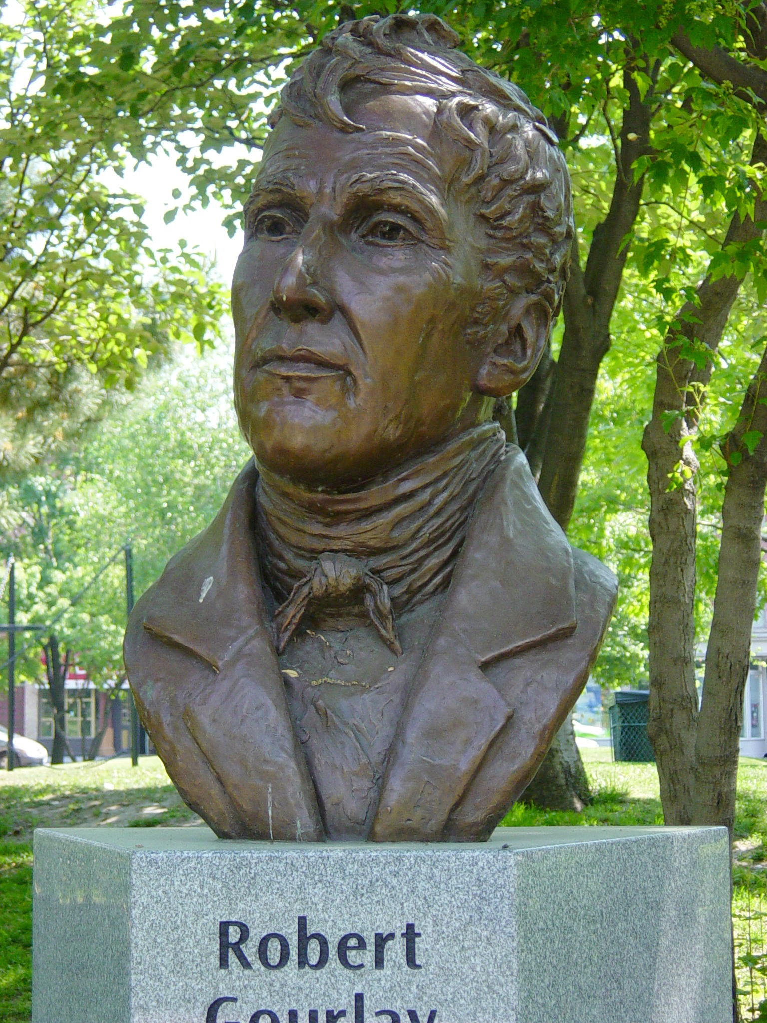 Bronze image of Robert Gourlay, Toronto, Canada. Image by User:Leonard G. Plaque on base reads: Robert Gourlay championed reform ahead of his time. In Scotland-a vote for every man who could read and write In England-a living wage for workers In Canada-fair land distribution